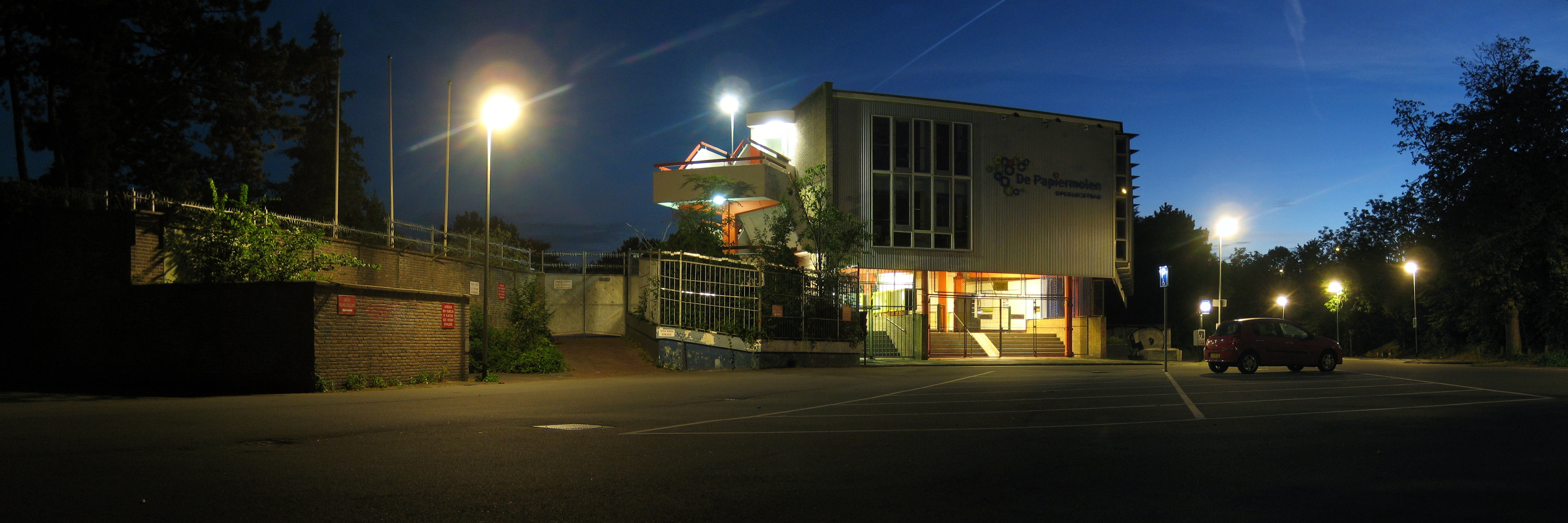 De Papiermolen (1955), a lido in the Dutch city of Groningen.